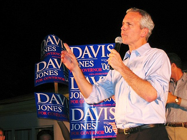 Accompanying note: "U.S. Rep. Jim Davis of Tampa, the 2006 Democratic nominee for governor, speaks at a rally in Wilton Manors days before his loss to Republican Charlie Crist, the attorney general, who was elected that year."